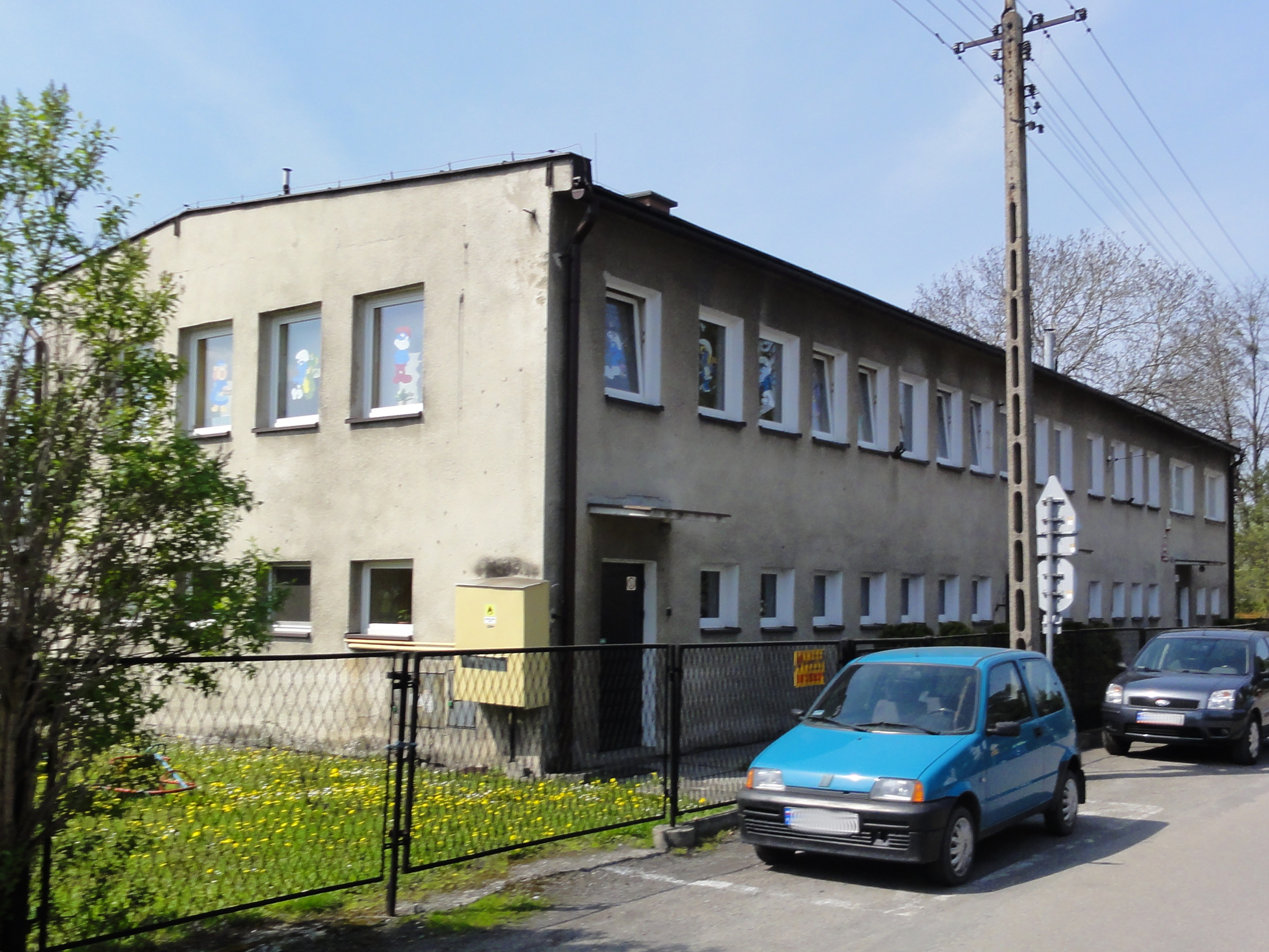 Kindergarten in Mnich